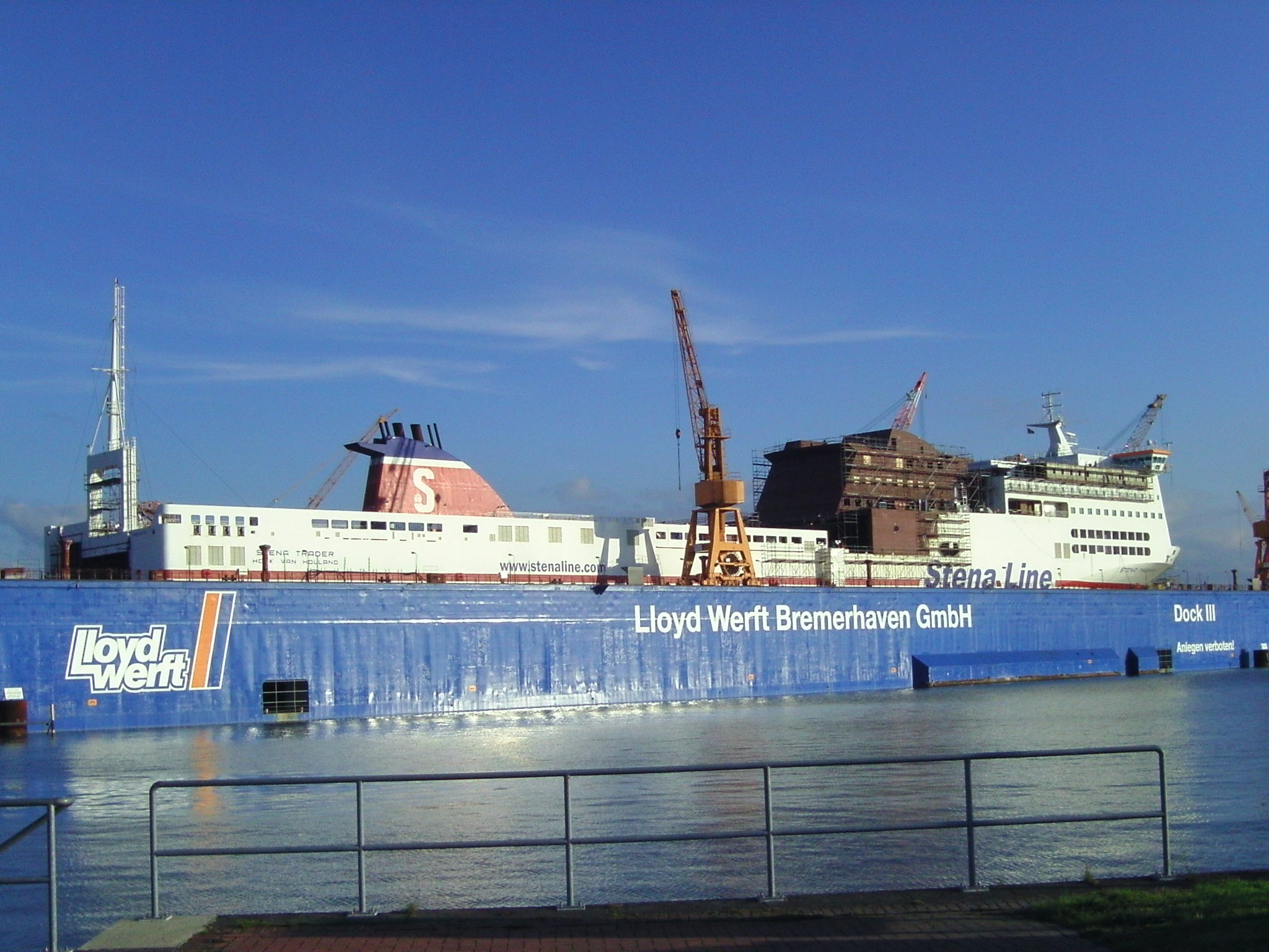 The ferry Stena Trader docked at Lloyd shipyard in Bremerhaven, Germany. The ship has been shortened for later use in Canada.